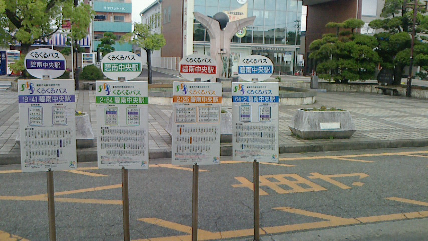 Hekinan city kurukuru bus stop